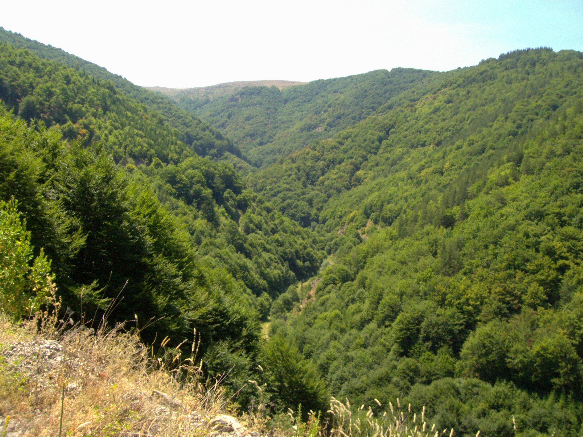 Osogovo mountain and the gorge of Kamenchitsa river, near village Kamenichka Skakavitsa, Bulgaria